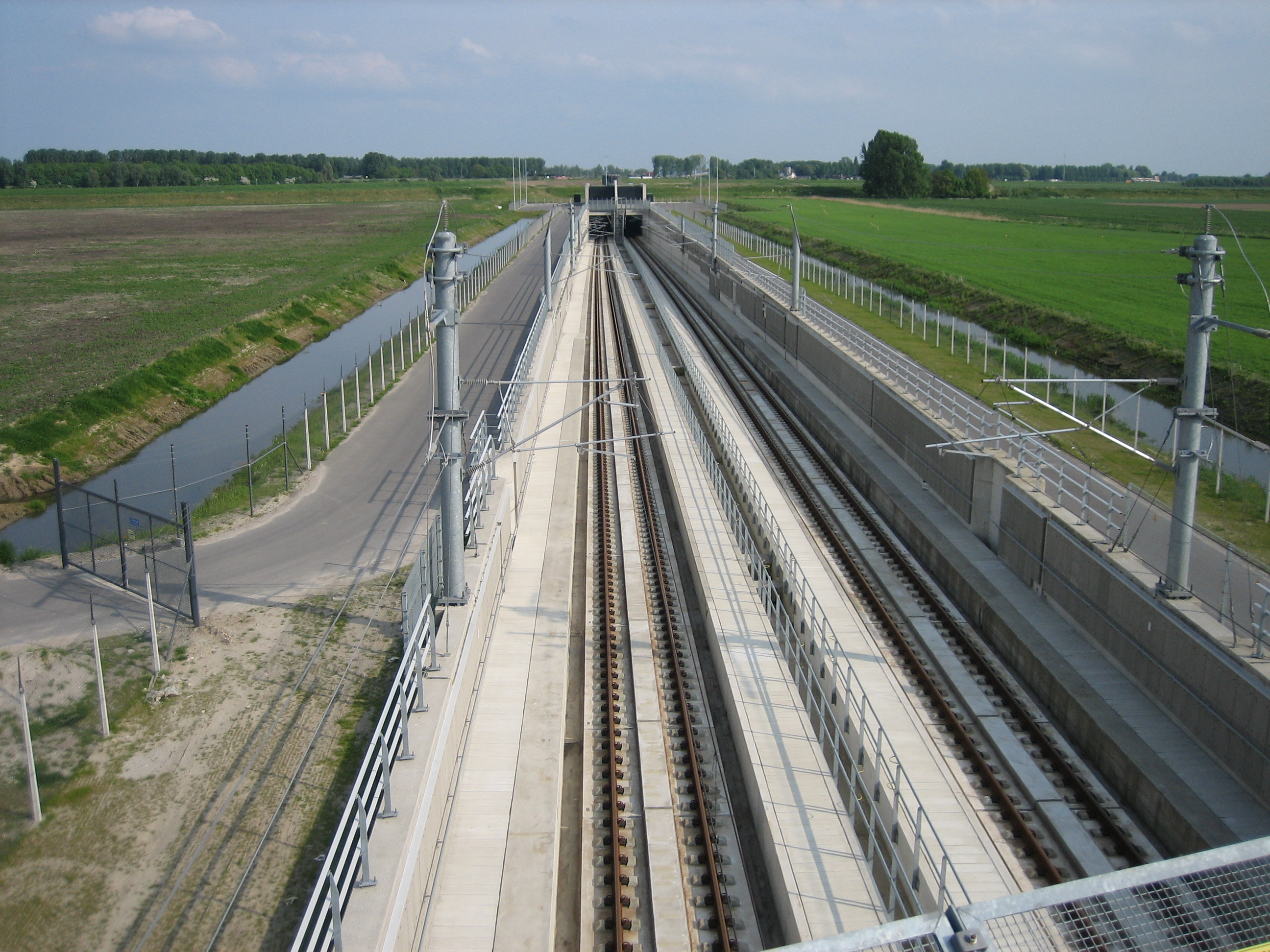 HSL South Tunnel Dordtsche Kil The Netherlands